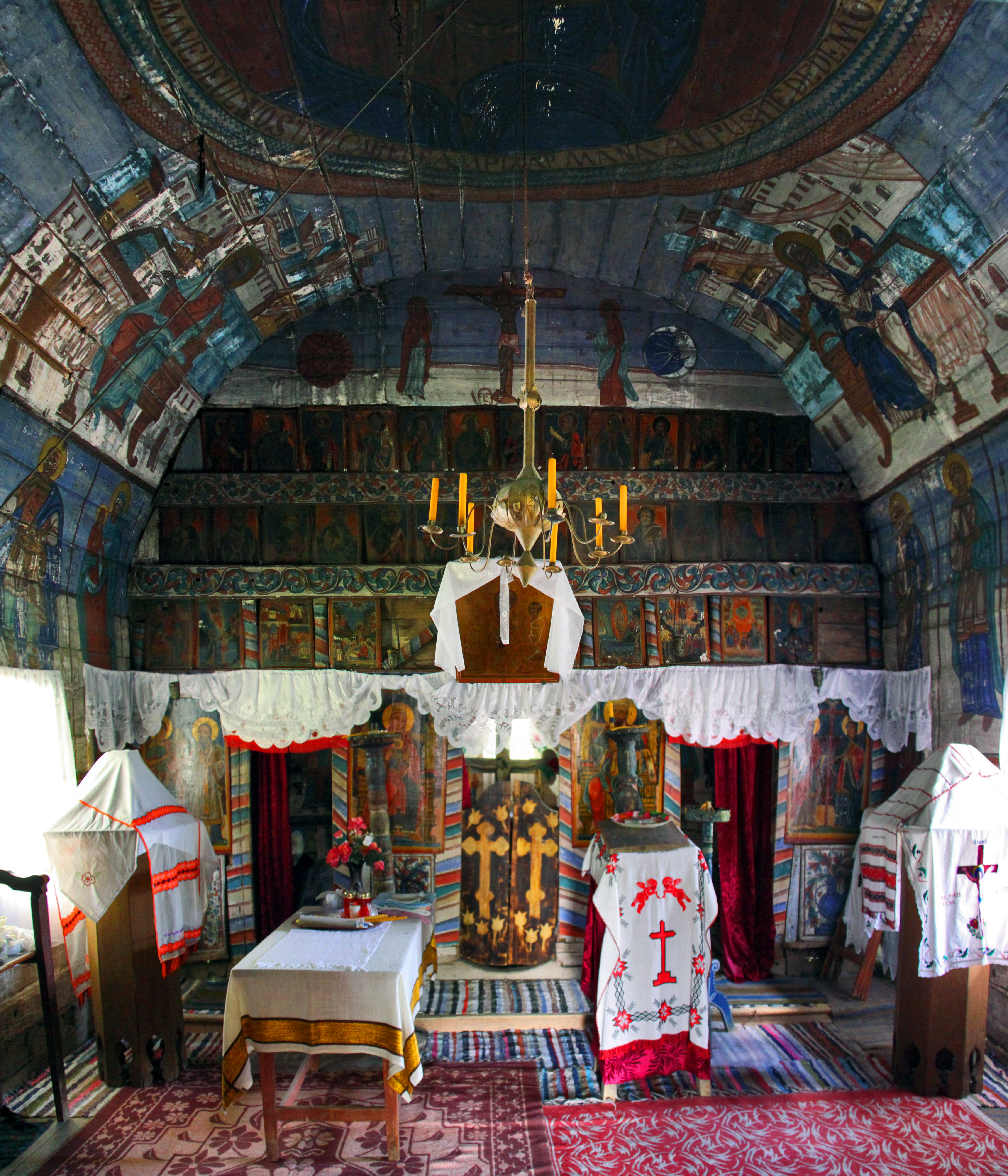 Curteana, Gorj county, România: the wooden church, interor of the nave.